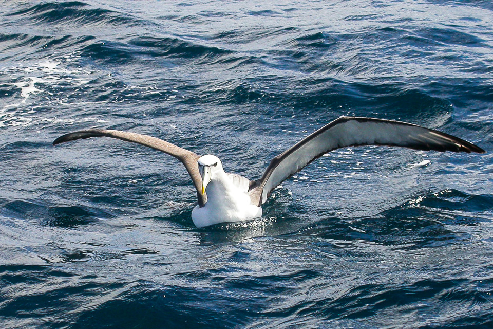 Pelagic trip round Stewart Island.